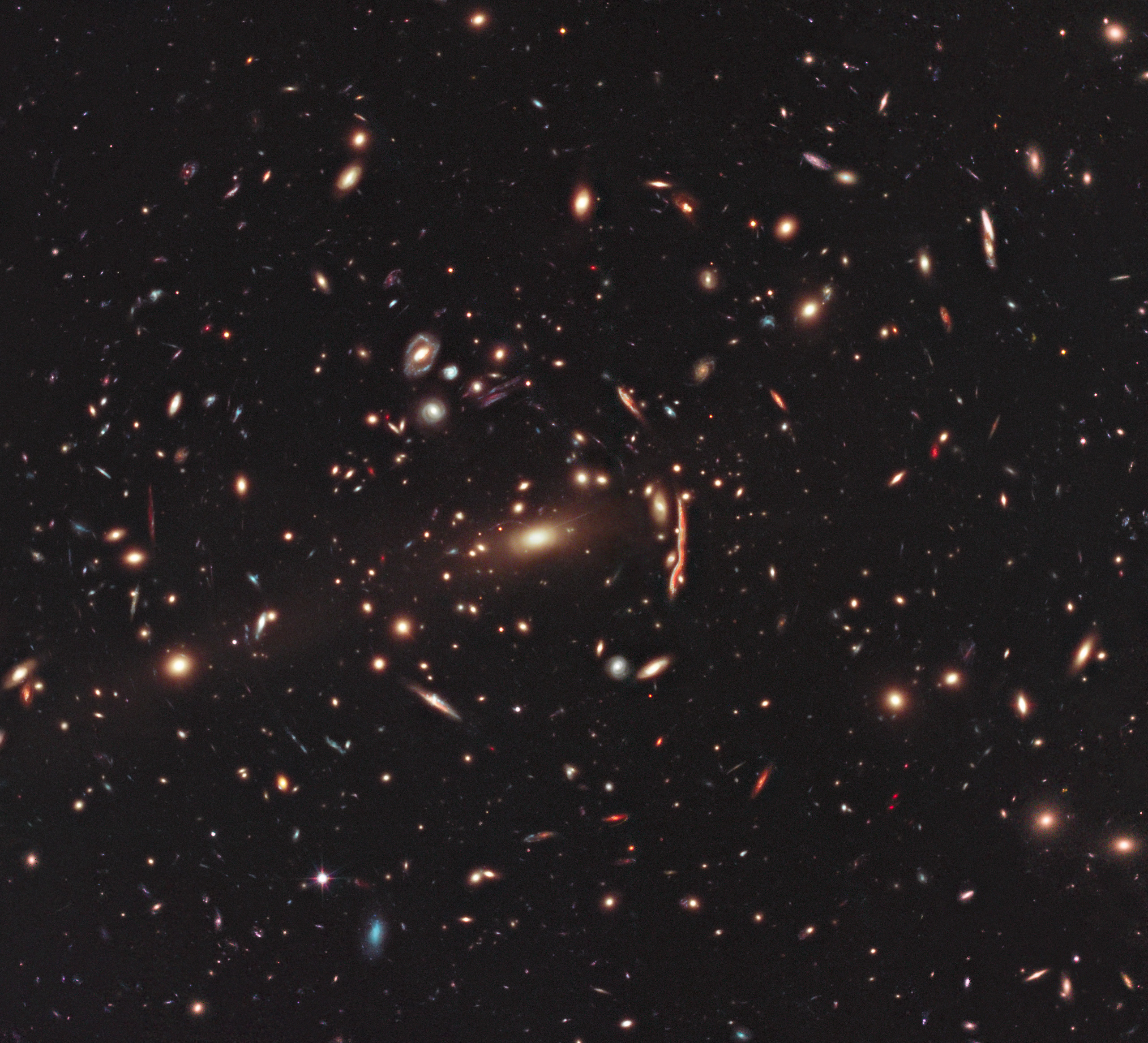 This image from the NASA/ESA Hubble Space Telescope shows the galaxy cluster MACS J1206. Galaxy clusters like these have enormous mass, and their gravity is powerful enough to visibly bend the path of light, somewhat like a magnifying glass. These so-called lensing clusters are useful tools for studying very distant objects, because this lens-like behaviour amplifies the light from faraway galaxies in the background. They also contribute to a range of topics in cosmology, as the precise nature of the lensed images encapsulates information about the properties of spacetime and the expansion of the cosmos. This is one of 25 clusters being studied as part of the CLASH (Cluster Lensing and Supernova survey with Hubble) programme, a major project to build a library of scientific data on lensing clusters.